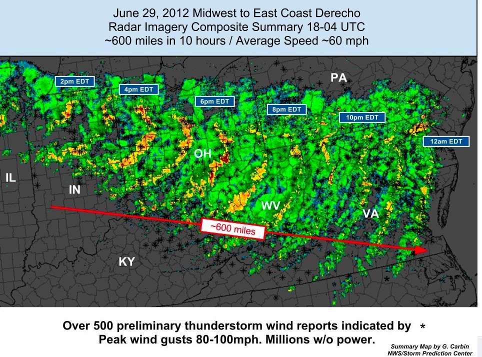 This is a composite radar image of the June 2012 Eastern United States Derecho.